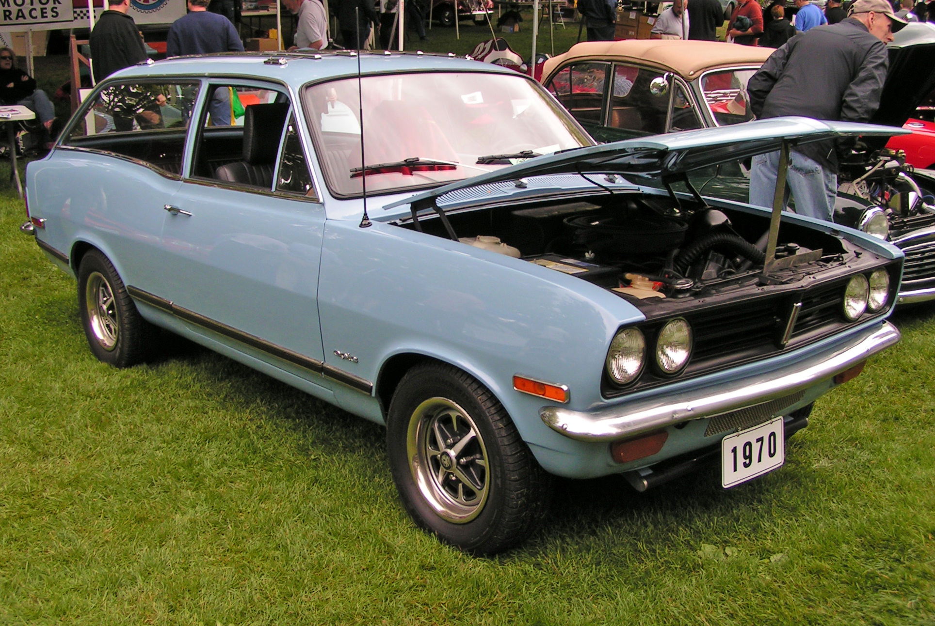 The Envoy Epic was a rebadged Vauxhall only sold in Canada (and in Trinidad and Tobago) - quite rare now. This Epic was a rebaged Viva HB Estate with left hand drive and some trim differences, here a 1600 DeLuxe Automatic. This one sports a 3.8L GM V6 and automatic gearbox.